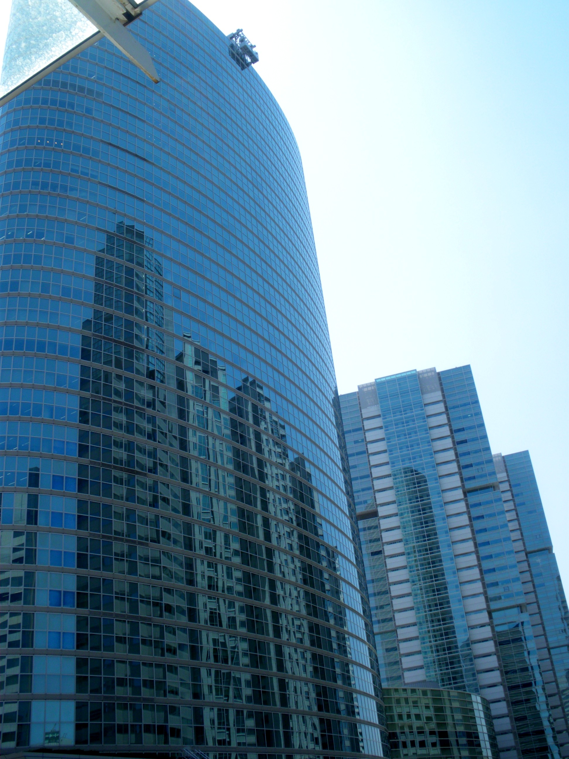 A photo of an overview of Shinagawa Intercity.Konan Minato-ku,Tokyo,Japan.